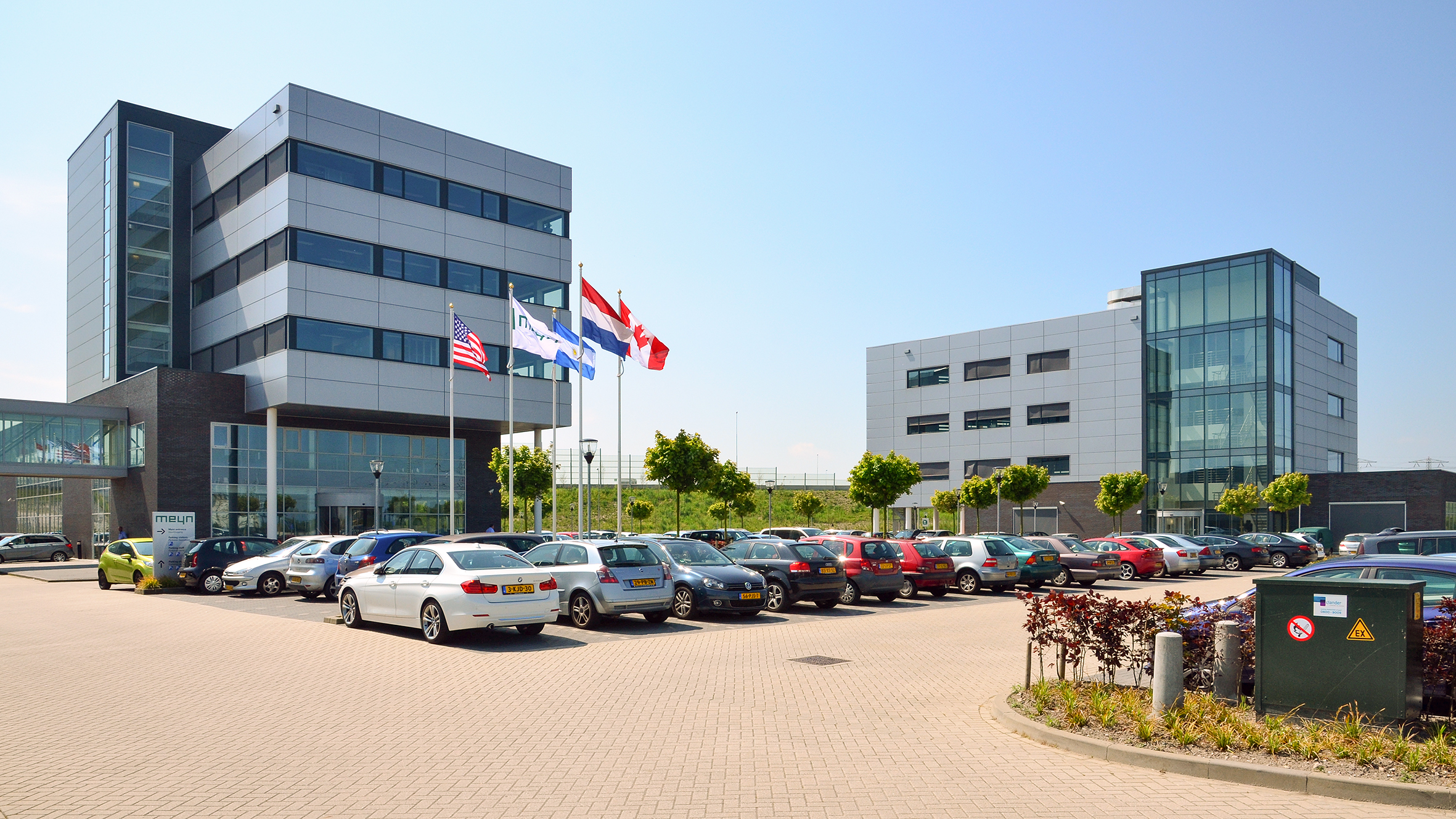 Meyn head office, Westeinde 6, 1511 MA, Oostzaan, the Netherlands